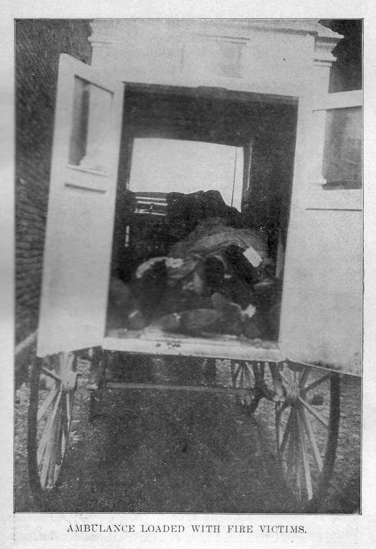 Dead in wagon after the Iroquois Theater Fire.